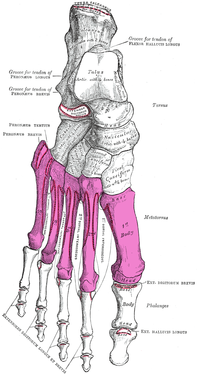 Bones of the right foot, dorsal surface. Metatarsus shown in purple.